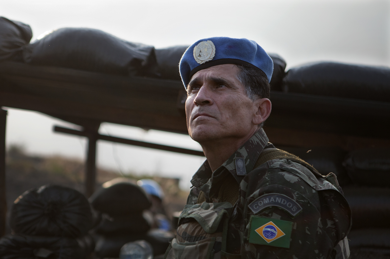 MONUSCO Force Commander, Gen. Carlos Alberto dos Santo Cruz during an observation mission on Munigi Hill as FARDC conduct an attack on M23 rebel positions in Kanyaruchinya near Goma, the 15th of July 2013. © MONUSCO/Sylvain Liechti